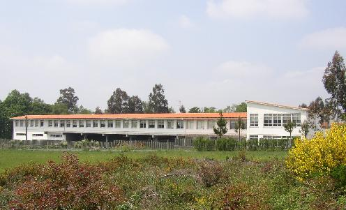 Picture of the Teixeiro C.E.I.P (Elementary School). Small community in Spain